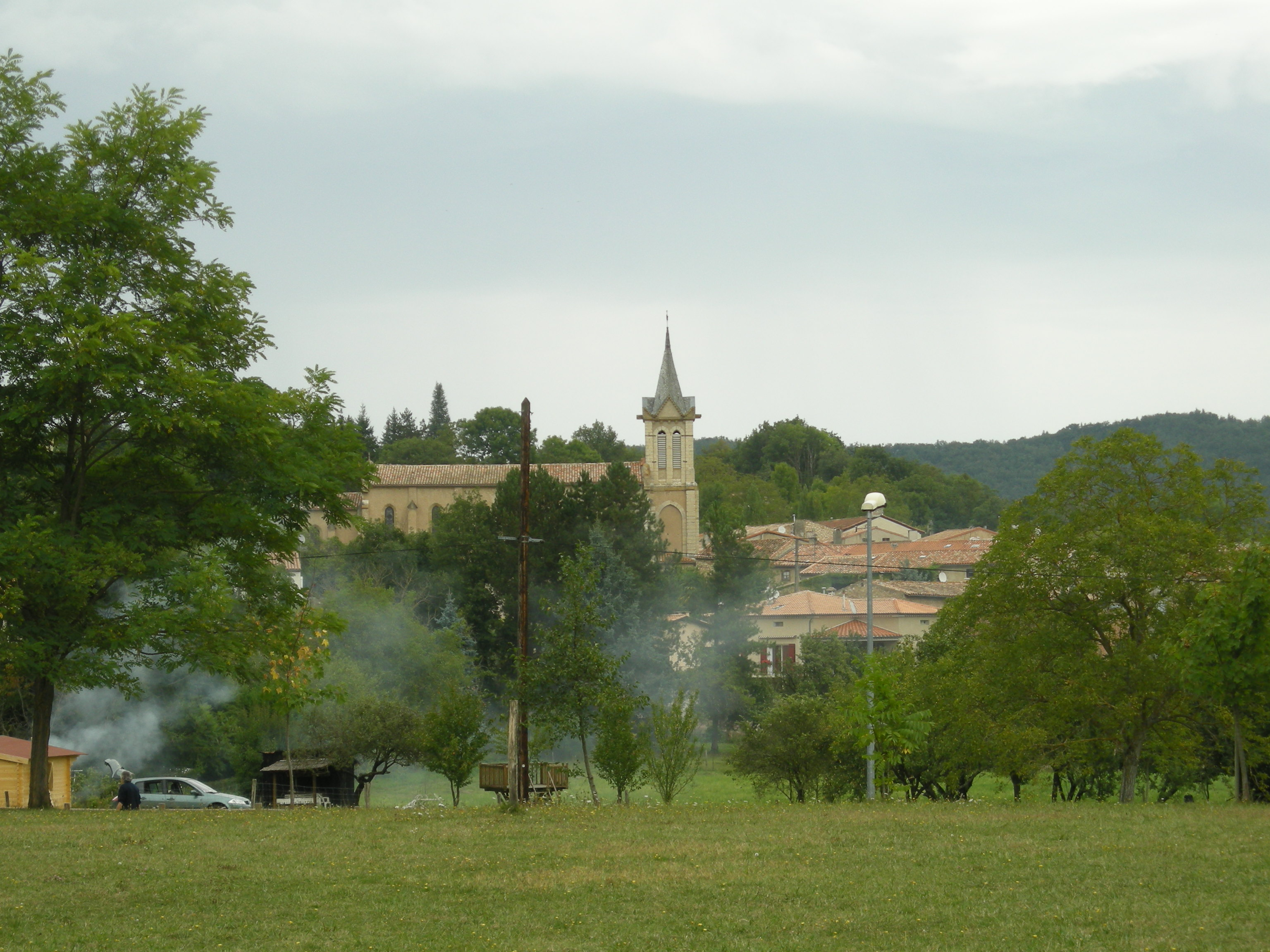 Church of Puivert, Aude, France.